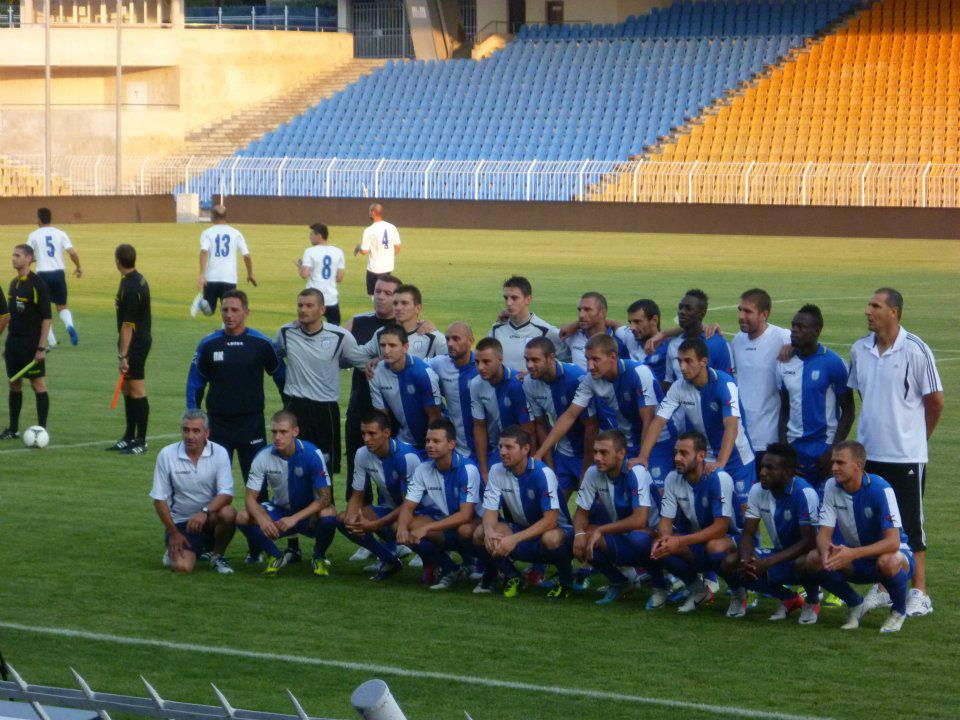 Introduction of Chernomoretz Burgas for 2012/2013 season